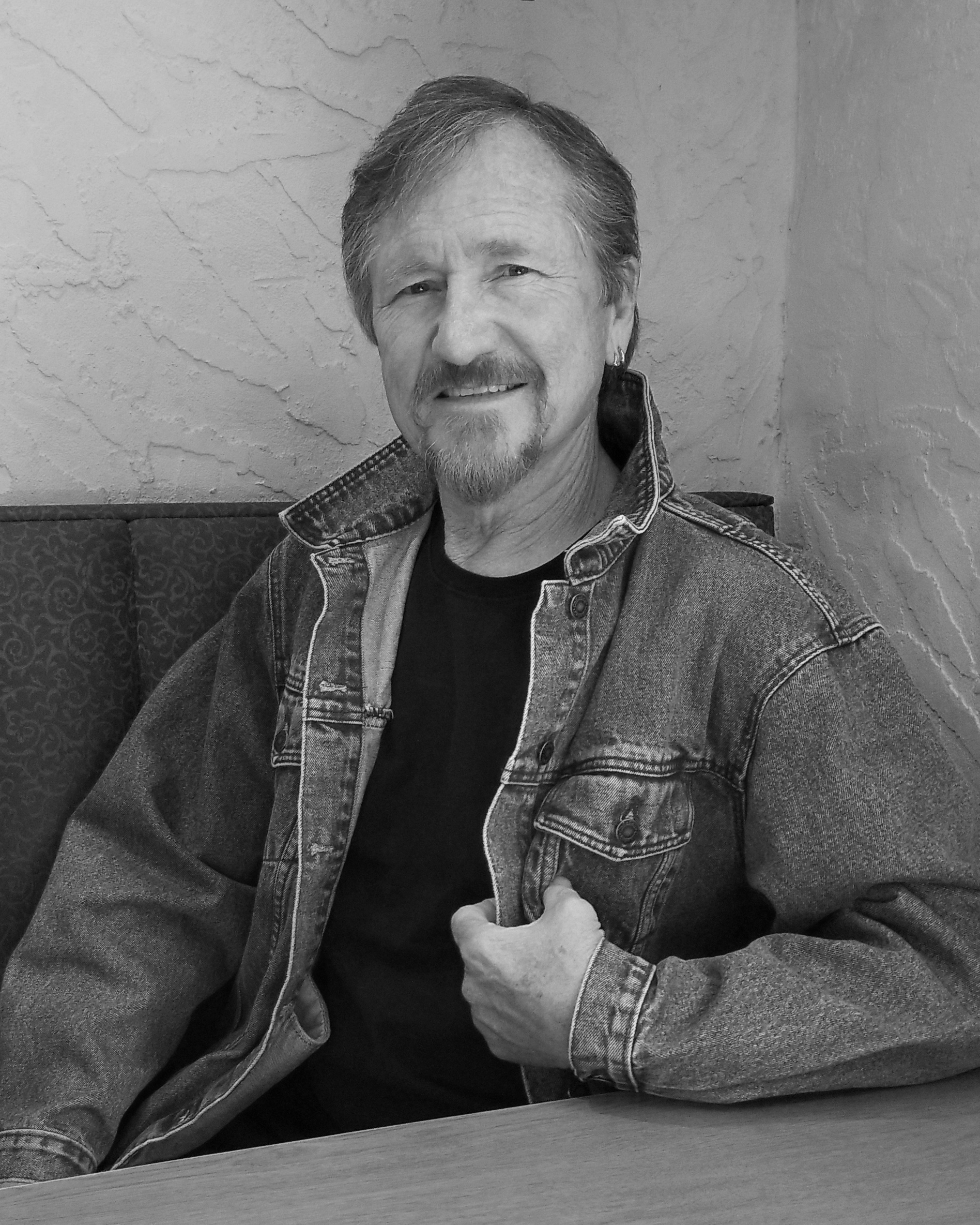 S. D. Nelson, 201